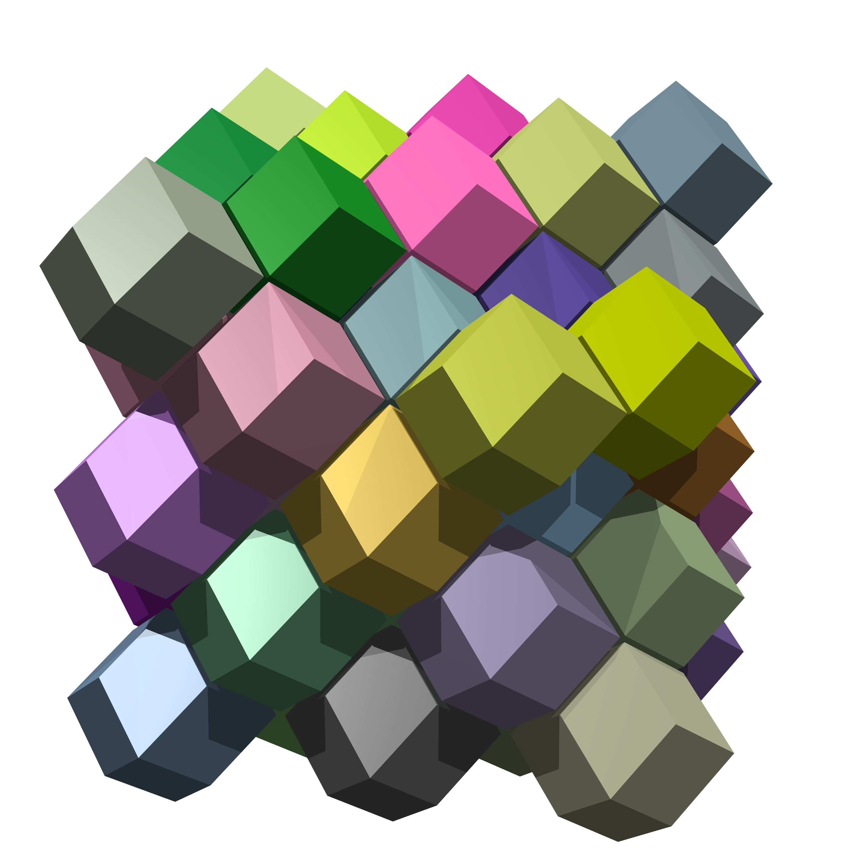 Space tesselation of rhombic dodecahedra